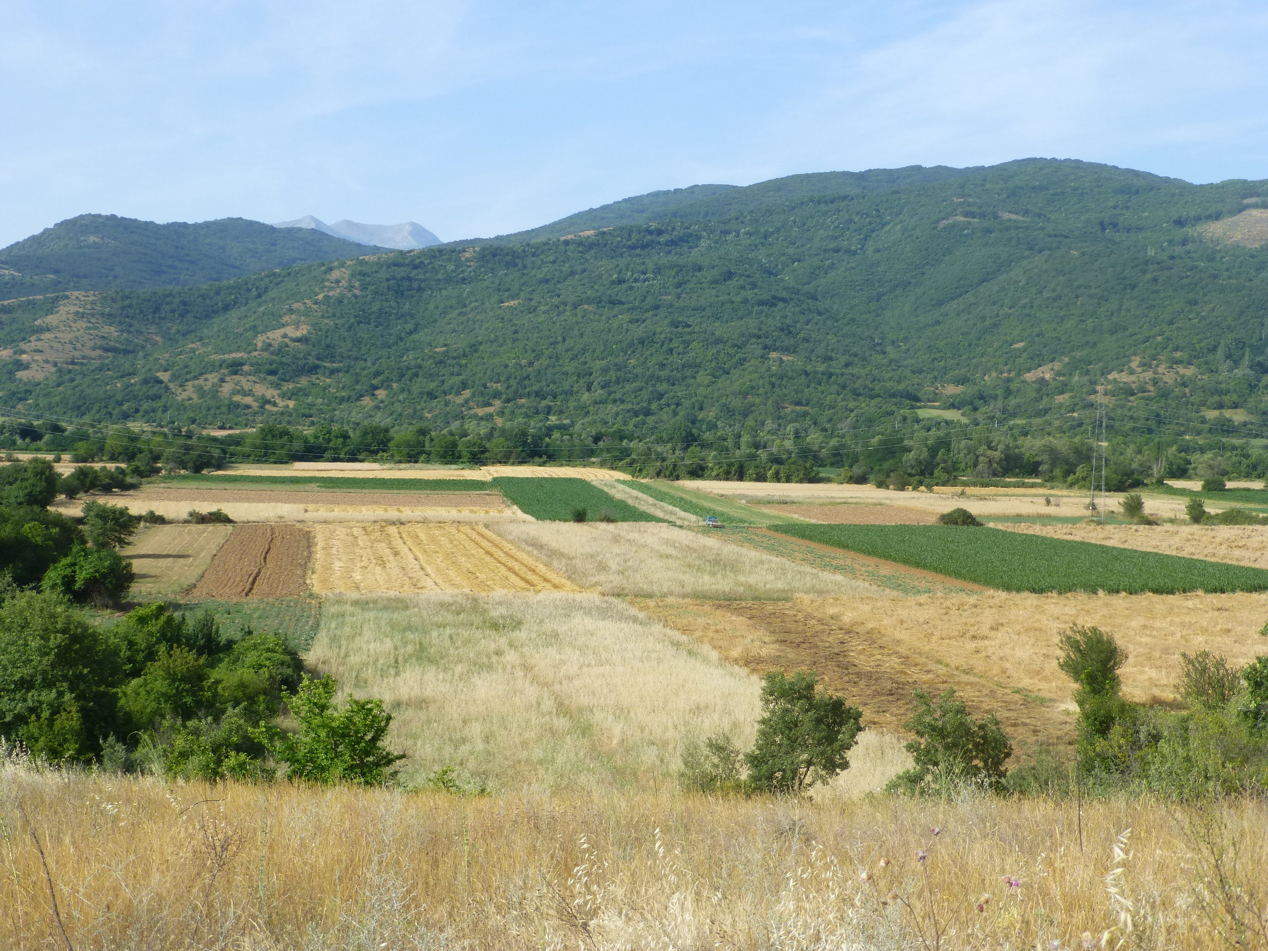 On the road between Lopatica and Crnovec (off Macedonian Hwy P1305, between Demir Hisar and Bitola)